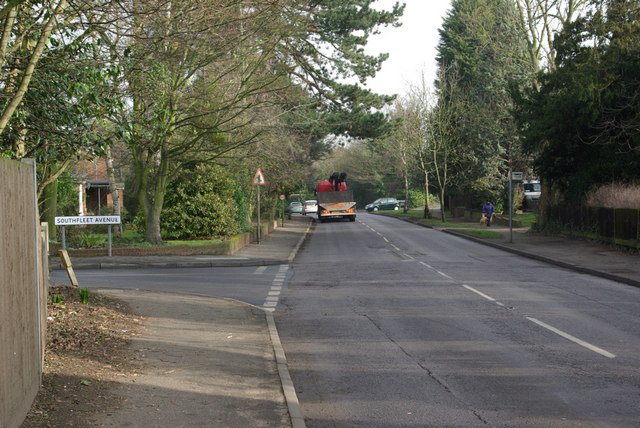 New Barn Road A quite busy road at the corner of Southfleet Avenue in the settlement of New Barn.